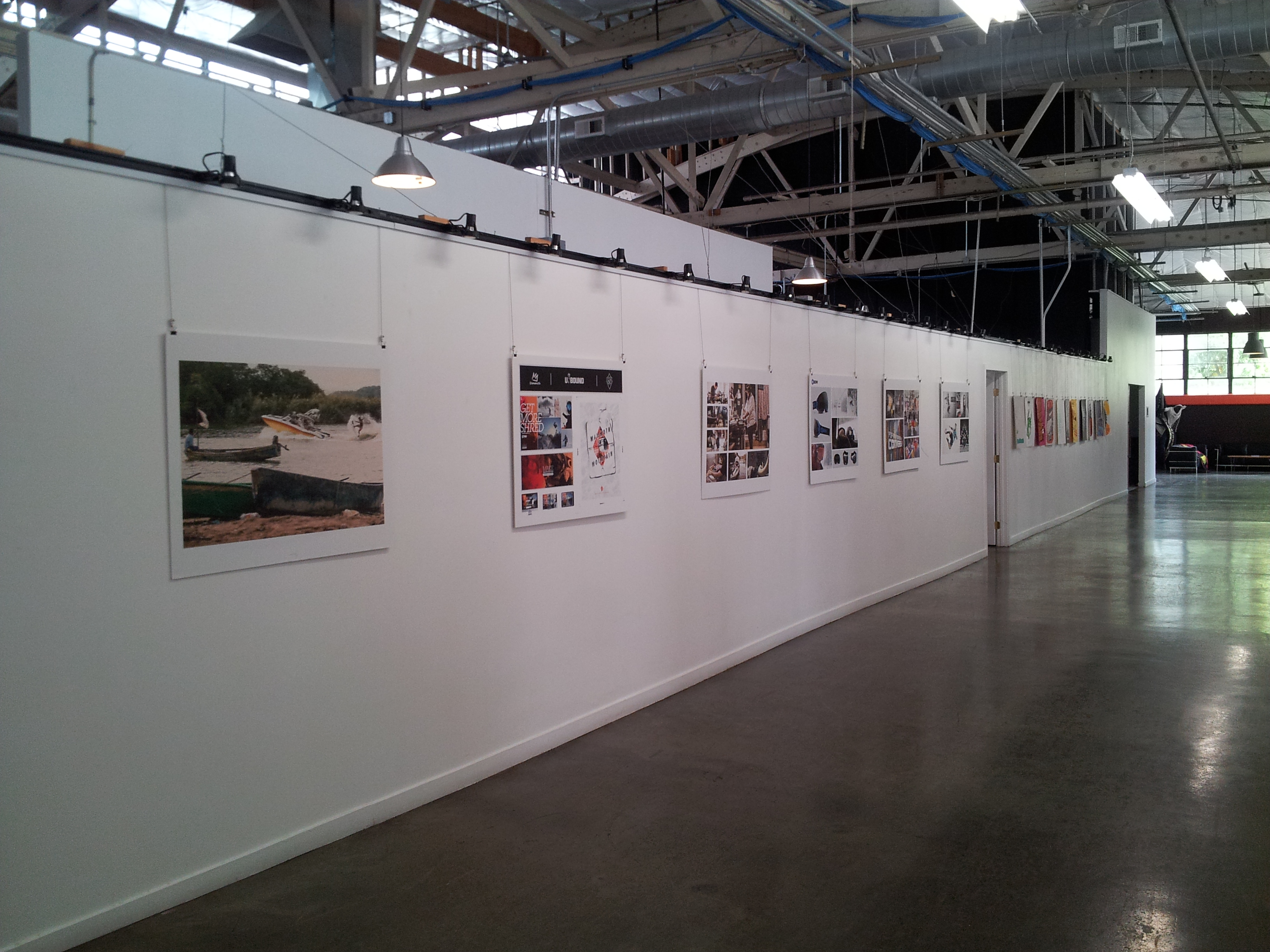 Nemo Design, Portland, Oregon